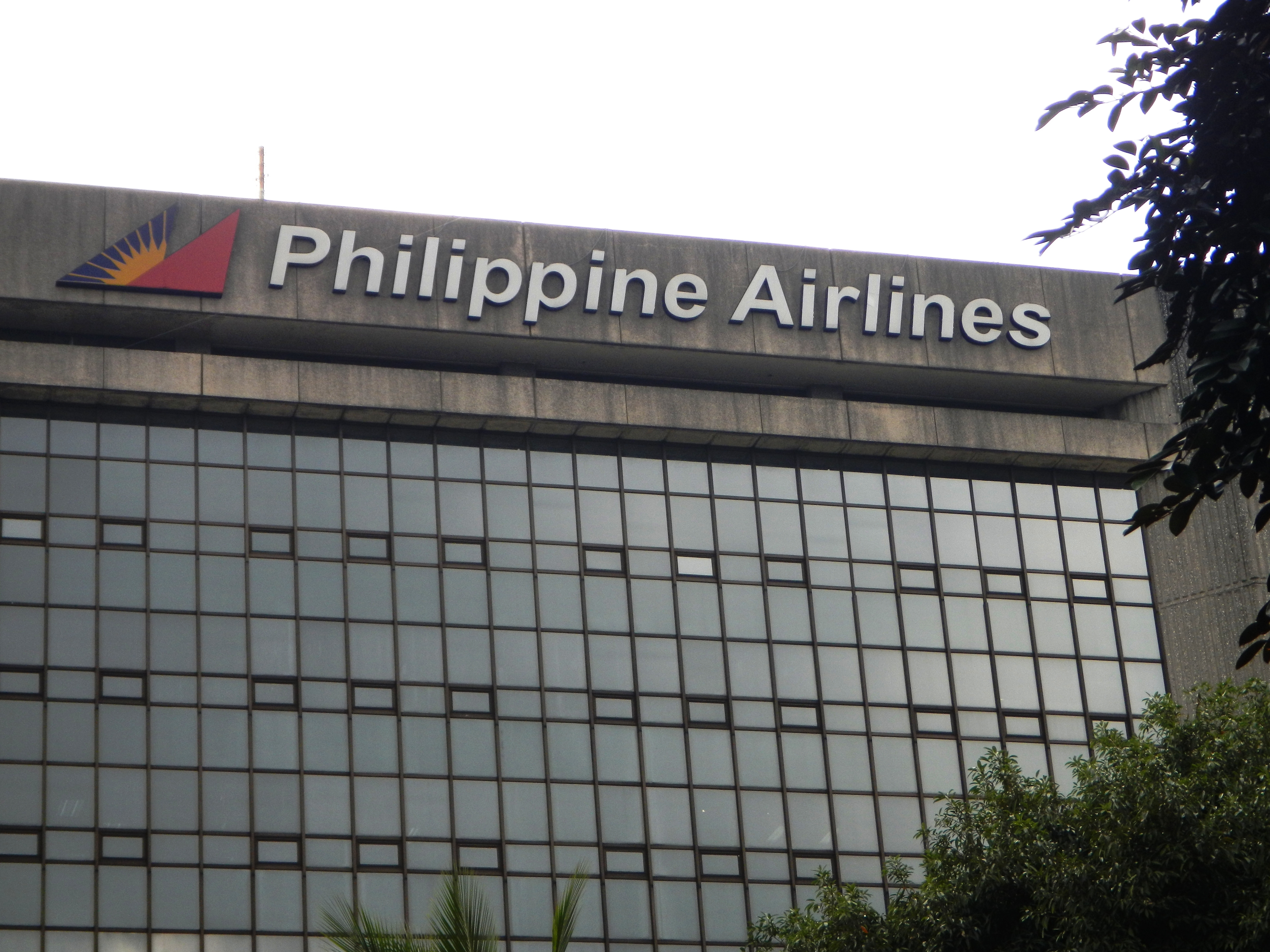 Upload Wizard photos of - Philippine Airlines Headquartered at the Philippine National Bank Financial Center in Pasay City.